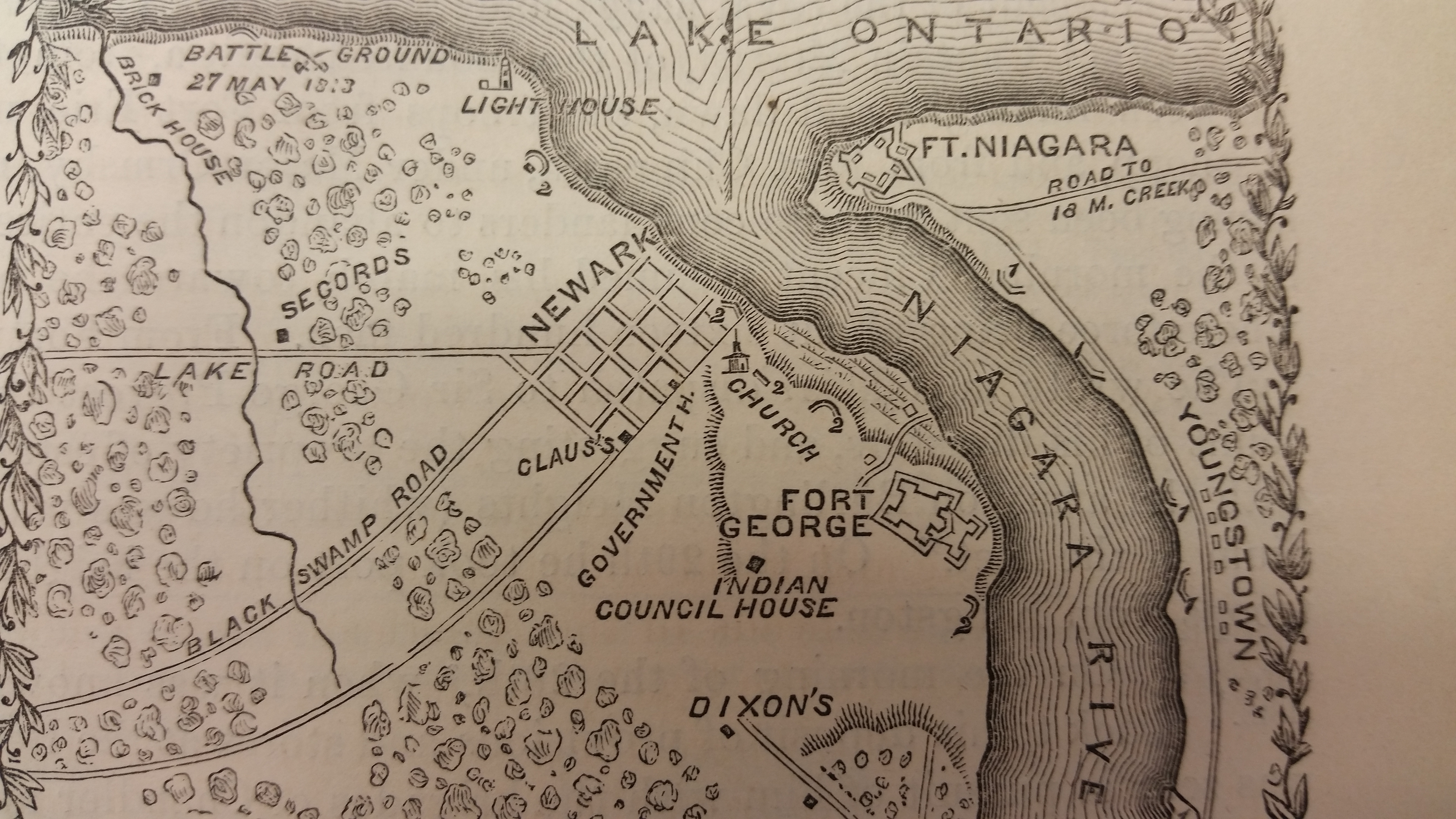 Battle of fort George